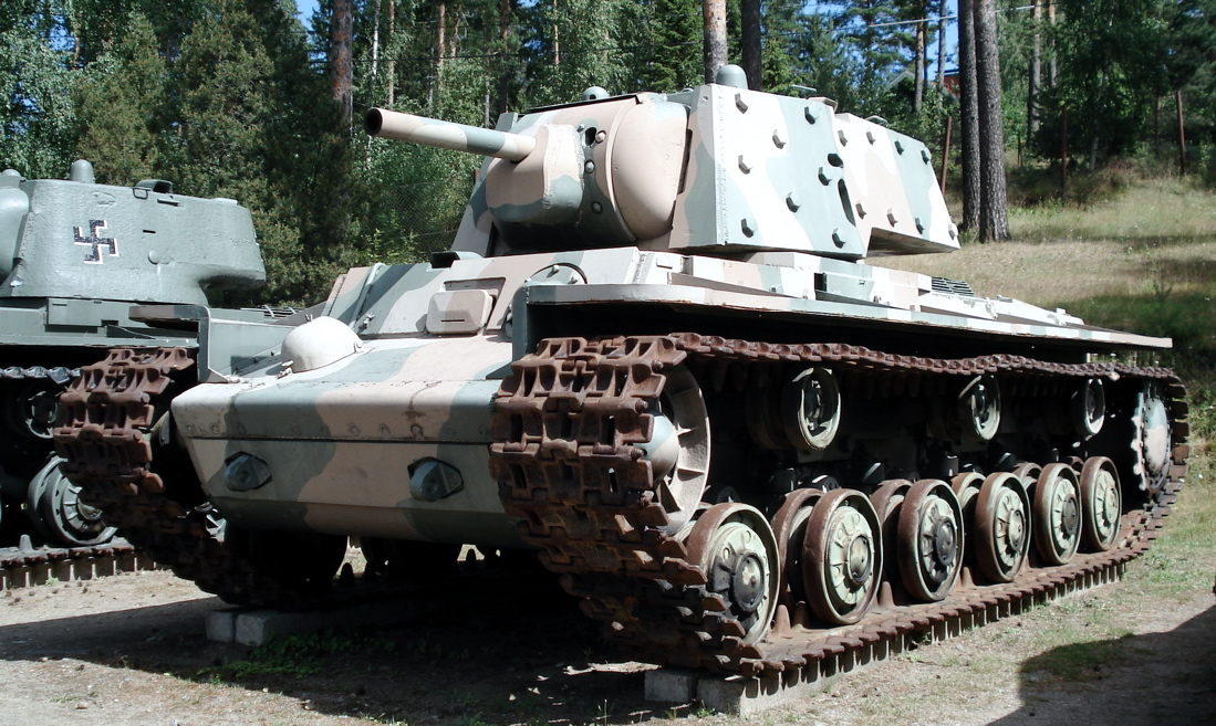 Soviet KV-1E tank manufactured in 1941 and captured by the Finns in late 1941, displayed in Finnish Tank Museum (Panssarimuseo) in Parola. Photo taken on July 14, 2006. Source: Photo by me, User:Balcer.